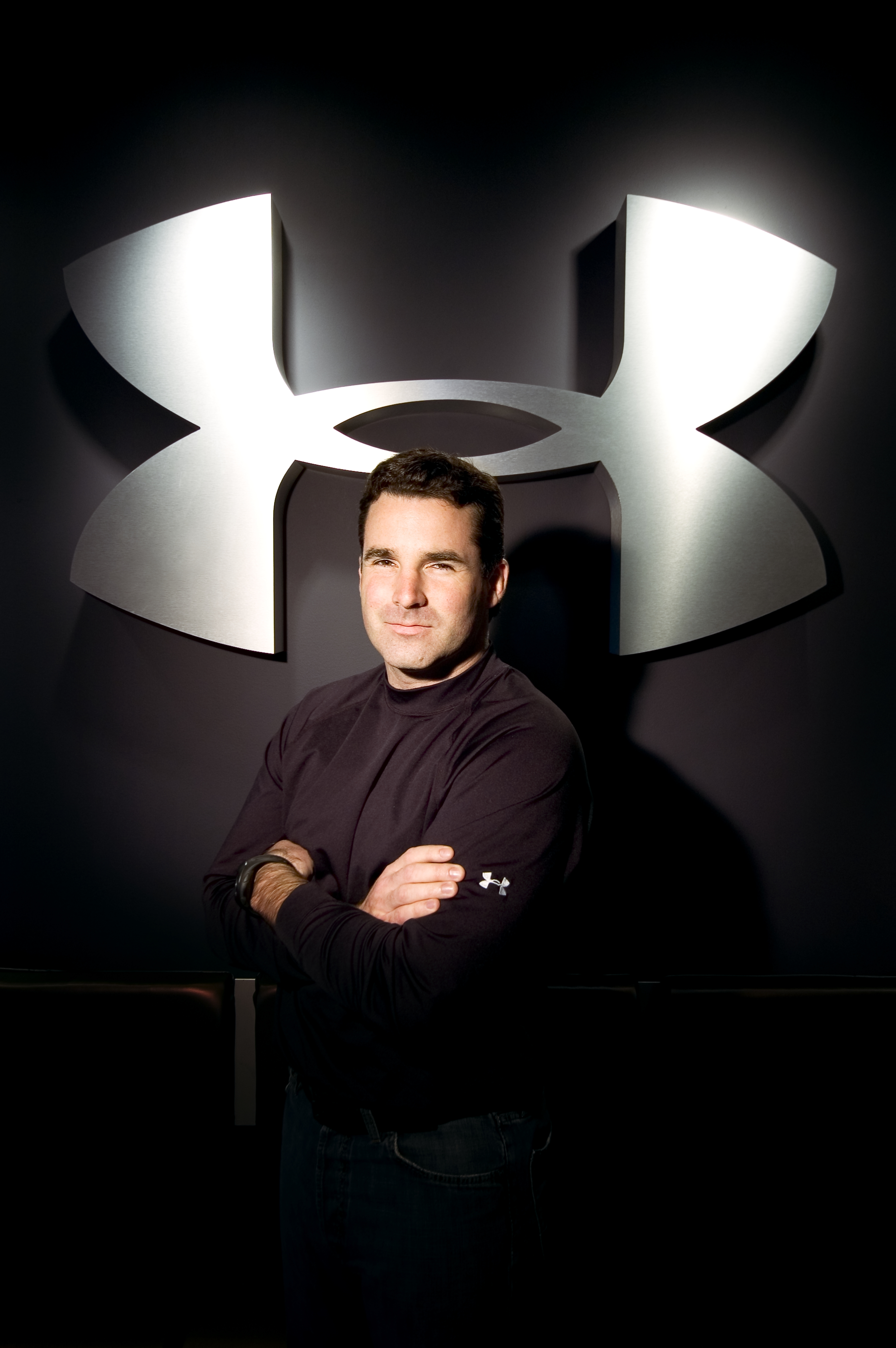 Kevin Plank, founder and CEO of Under Armour